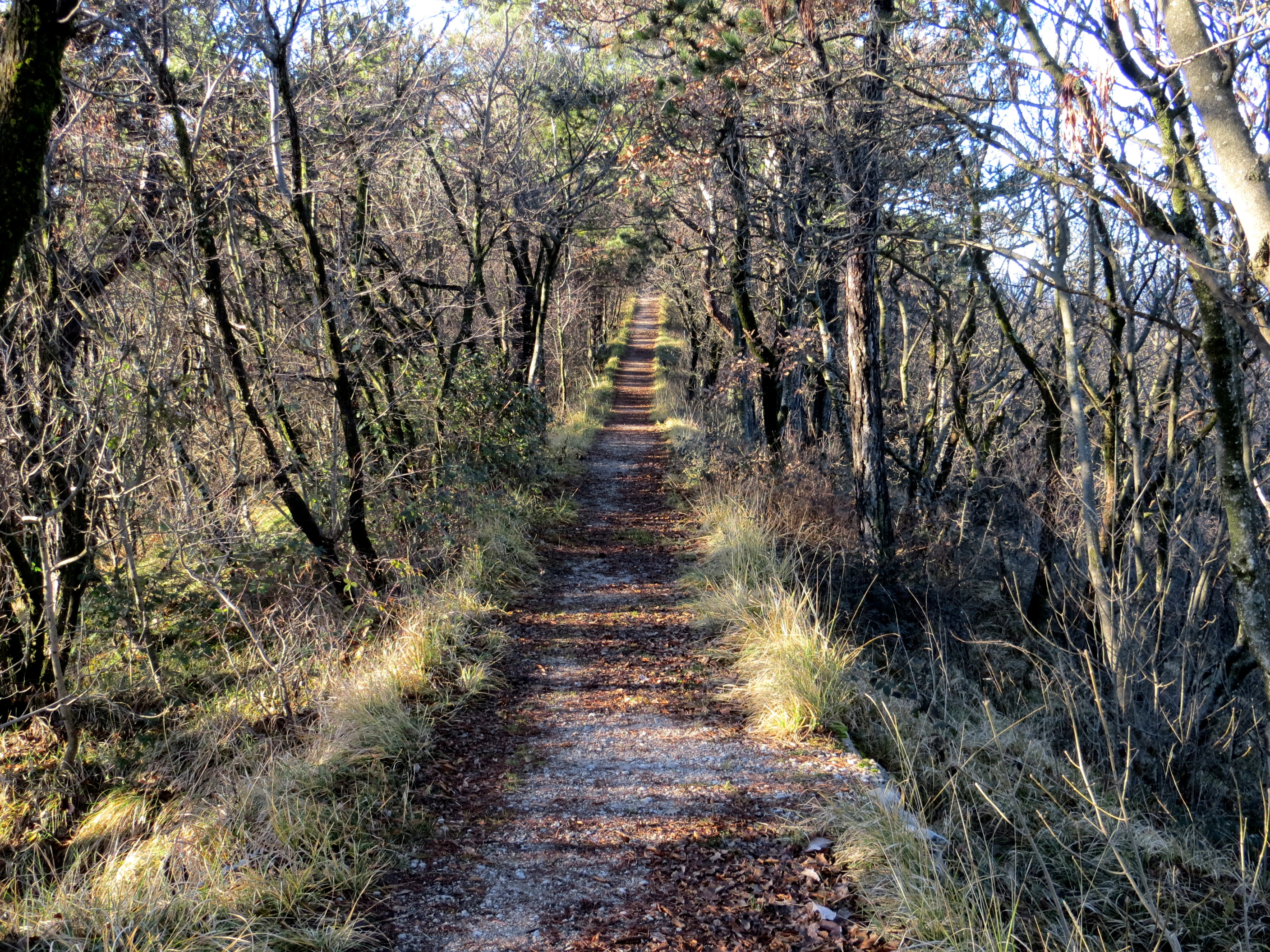 Path from the Franciscan monastery and church to Saint Francis's Hill (Frančiškov hrib) in Sveta Gora, Municipality of Nova Gorica, Slovenia